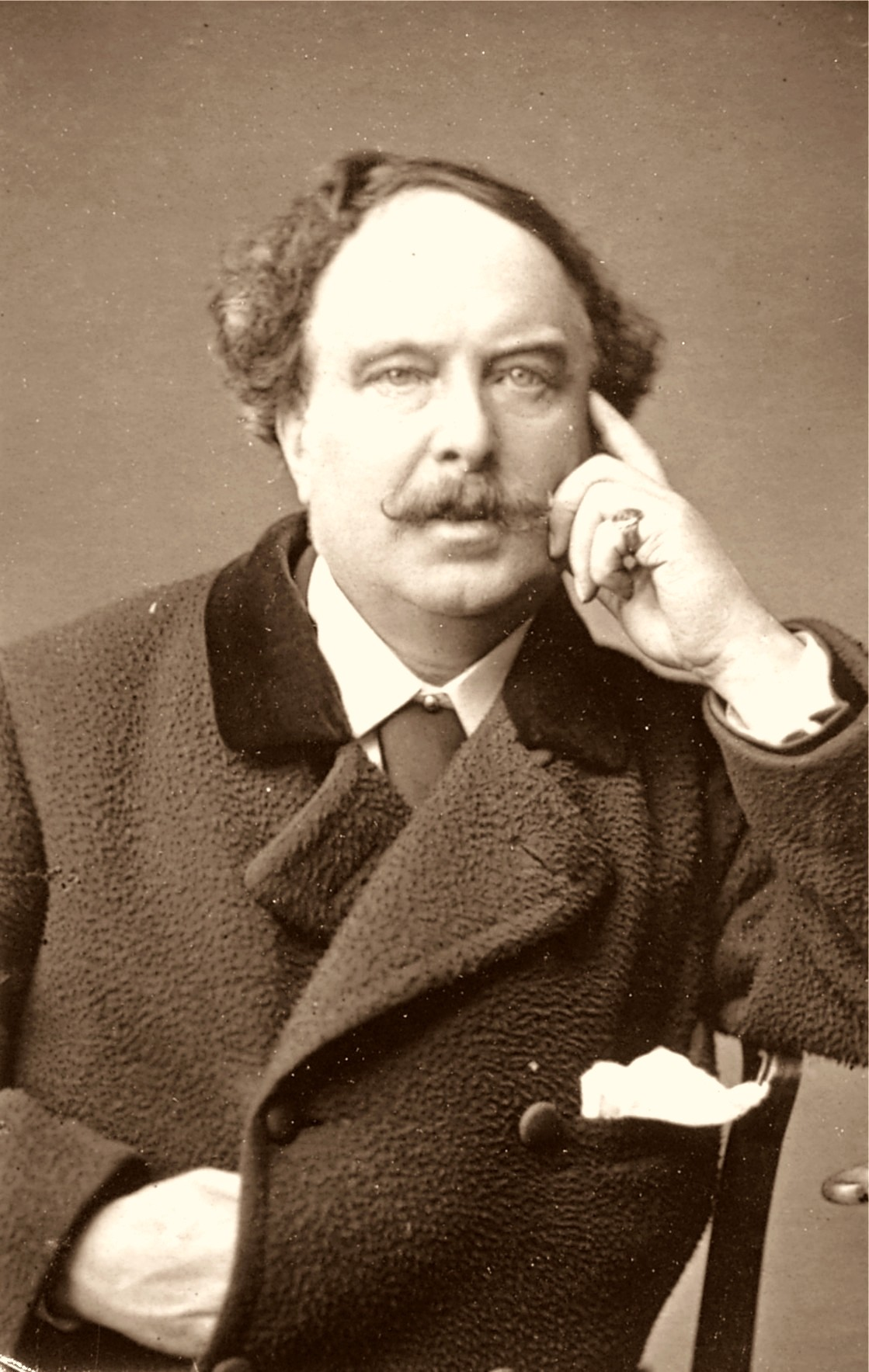 George Perren 1826-1909, English Opera Singer.